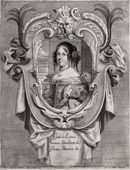 Portrait of Isabella d'Este after a portrait